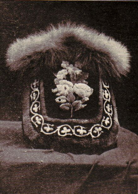 Fur carriage Fusskorb (Fußsack) mit Deckel aus Mosaik. Ausgeführt von der Firma M. Hartwich, Wien. Blumen und Arabesken sind aus nat. Otter geschnitten. Chancelière avec dessus en mosaique, faite par la maison M. Hartwich, Vienne. Le fleurs et arabesques sont en loutre de riviére naturelle, Carriage foot stool (foot muff) with cover made of mosaic. The flowers and arabesques are made from naturel otter. This work has been executed by M Hartwich, of Vienna.